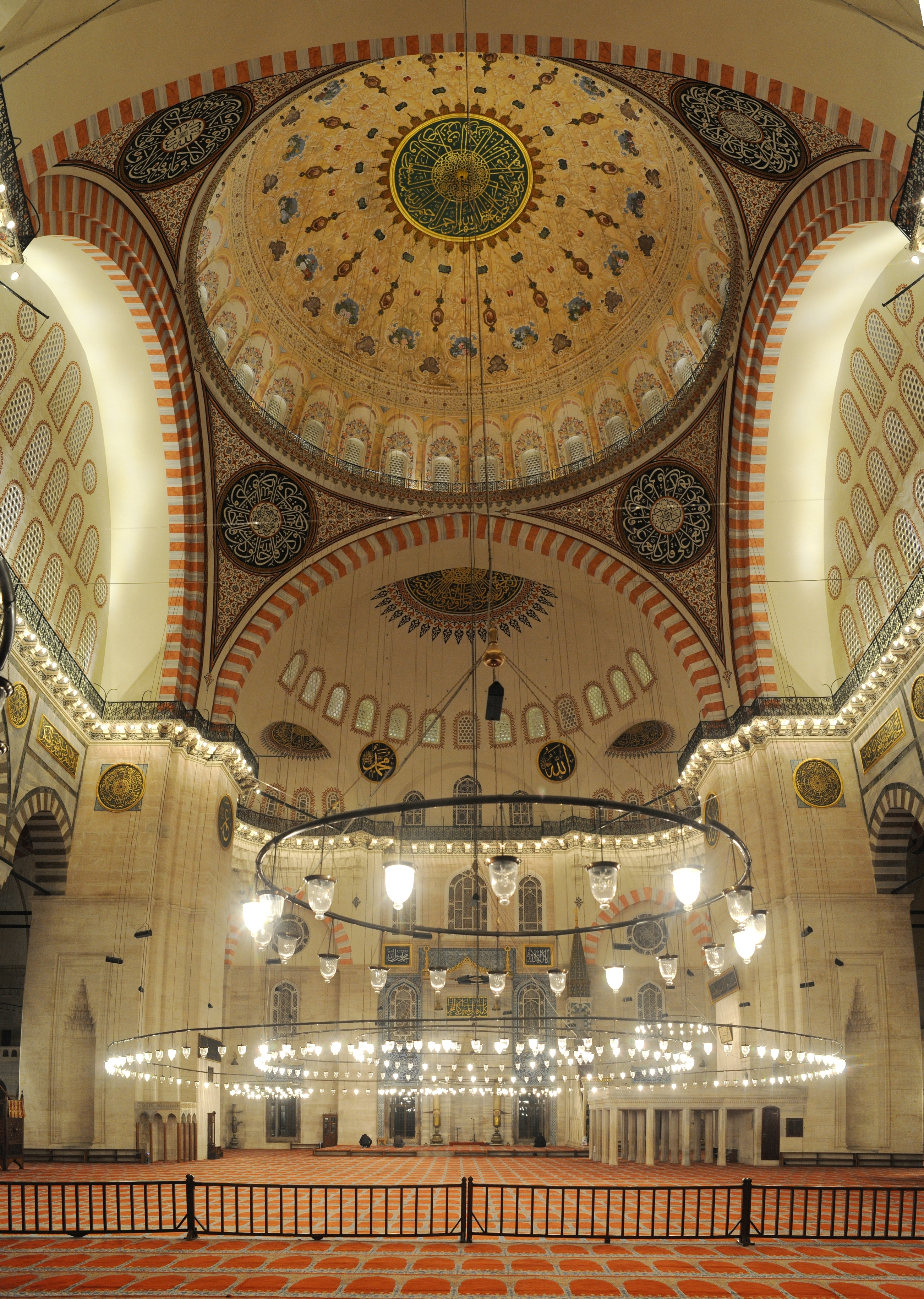 Inside Süleymaniye Mosque, Istanbul, Turkey.